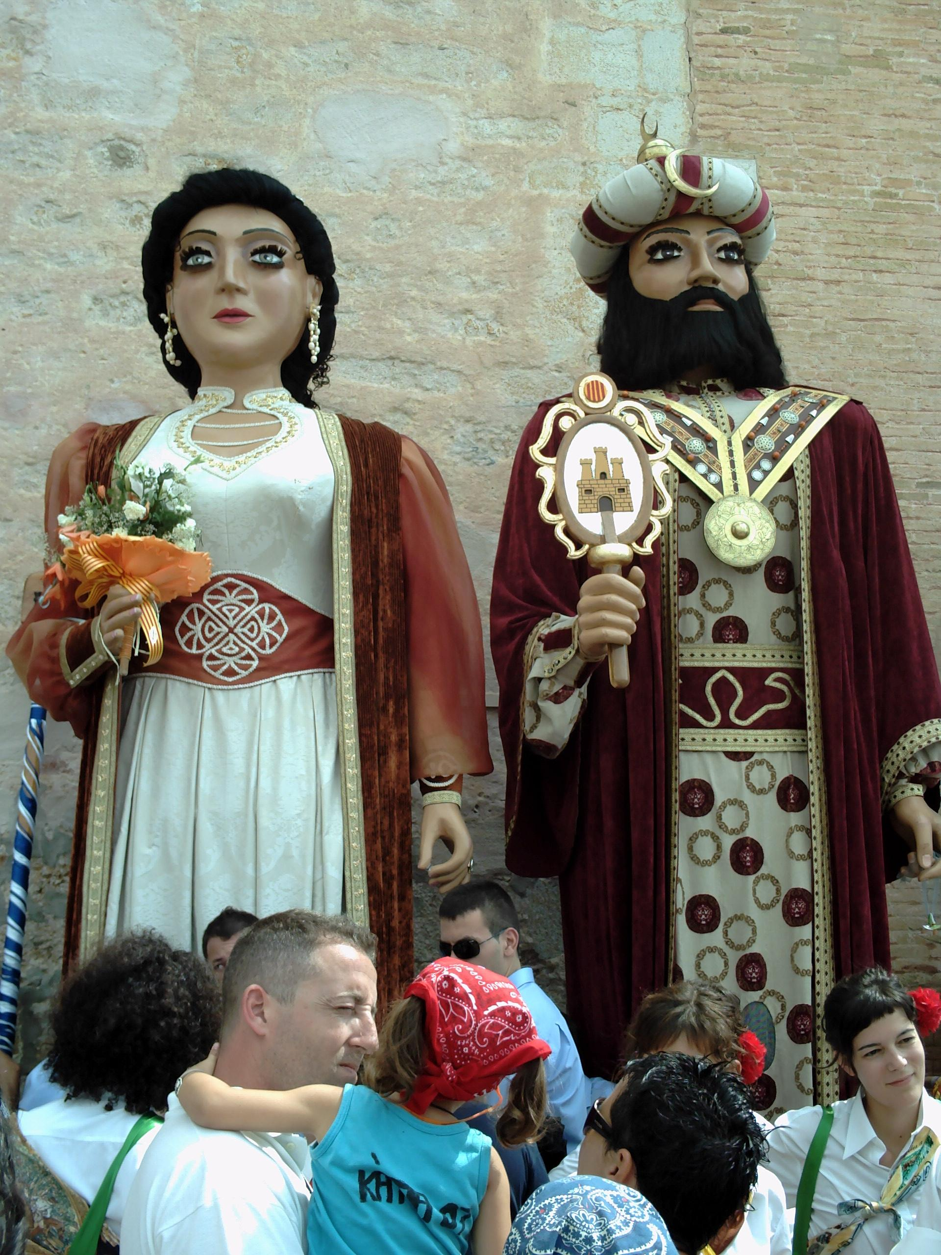 Giants in folkloric parade - Sitges